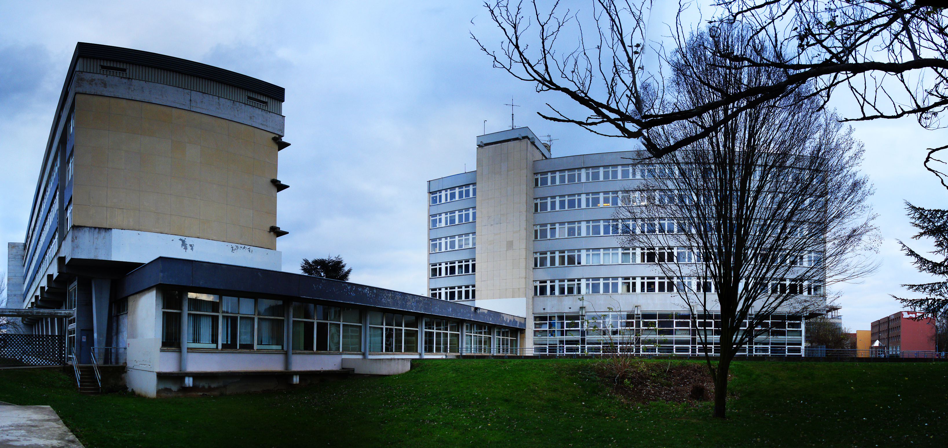 University of Strasborug: Faculty of Mathematics and Computer Science. Rear view. All visible trees have been cut in 2018.